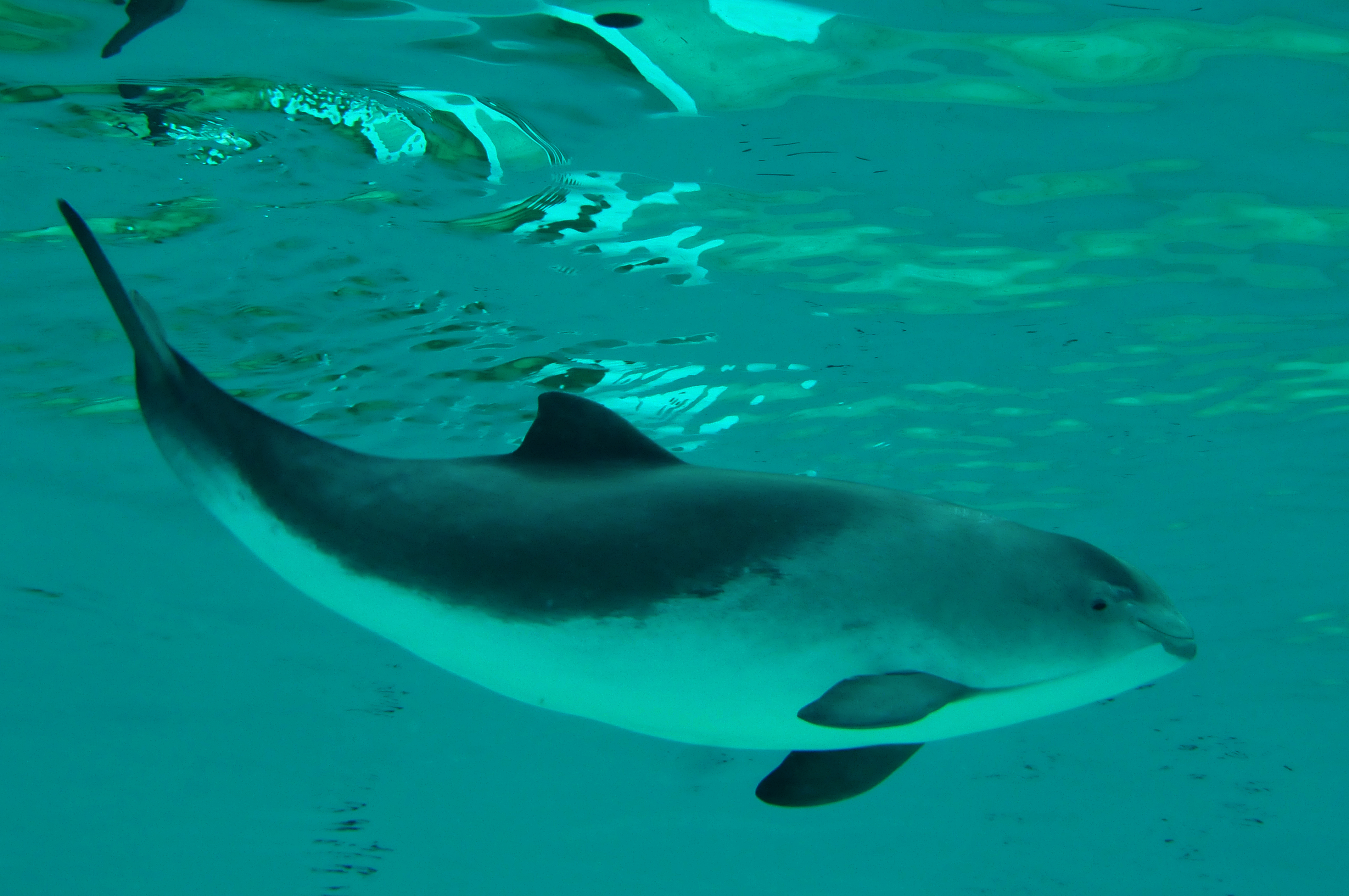 harbor porpoise Berend in the shelter, Ecomare